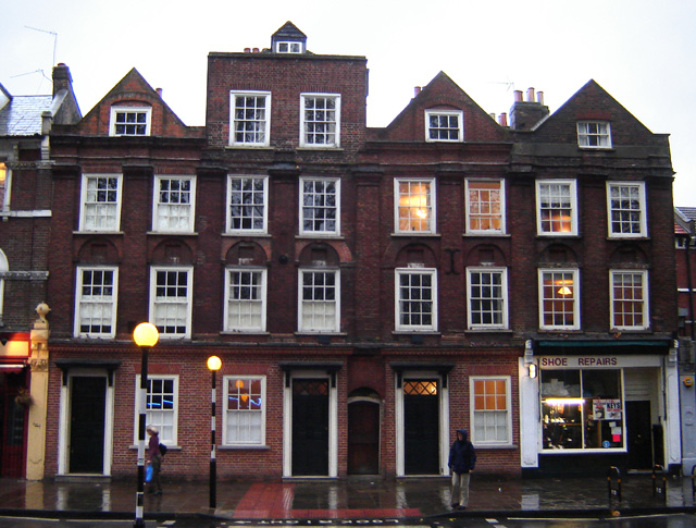 52-55 Newington Green, Islington, London. 6 November 2005. Photographer: Fin Fahey. (This is London's oldest surviving brick terrace, dated 1658).